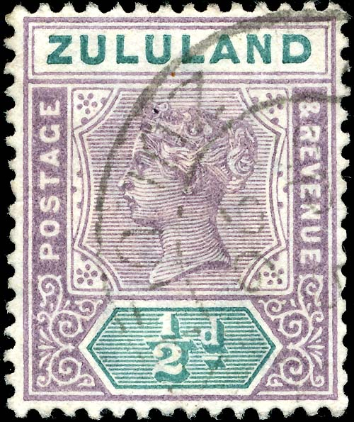 Zululand 1/2p stamp of 1894